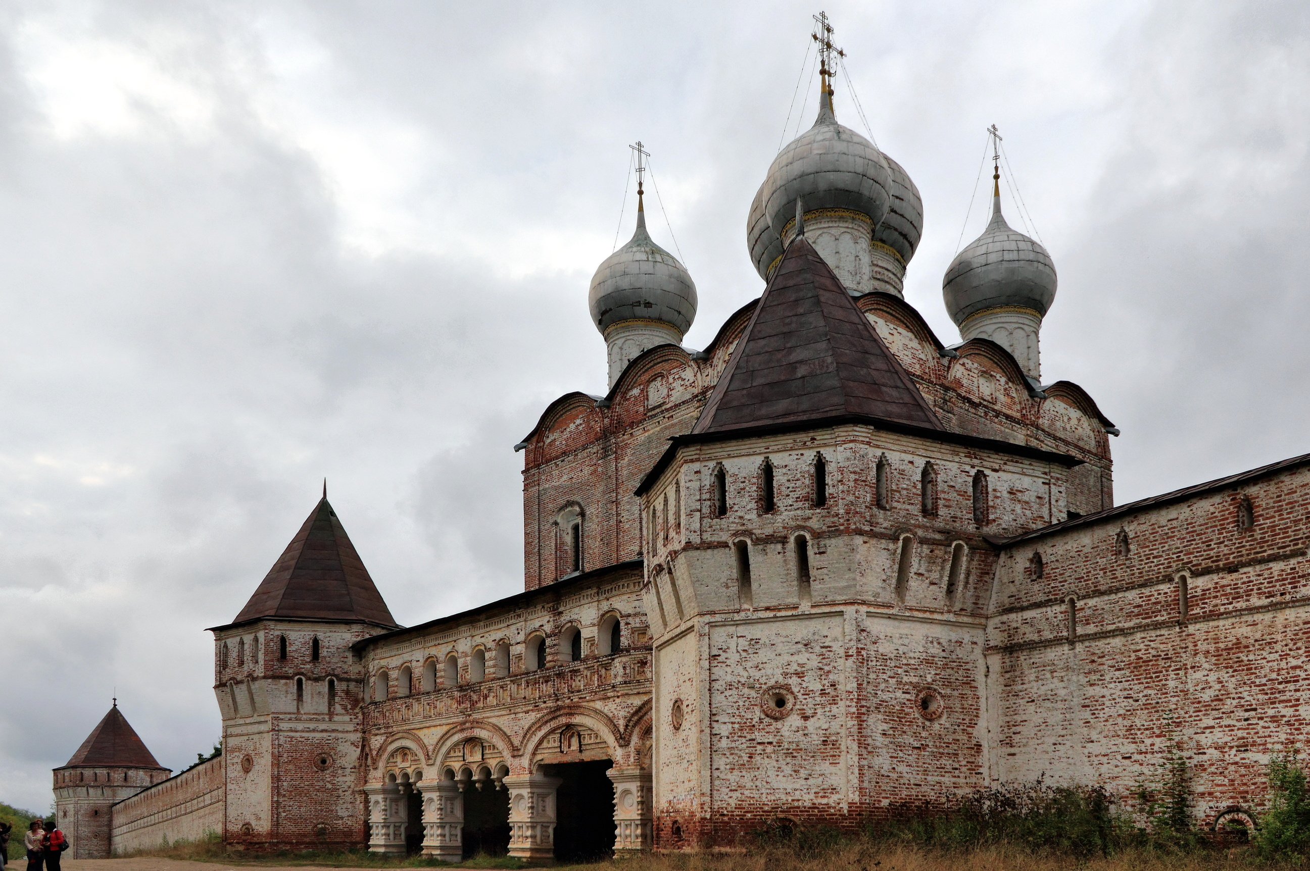 Borisoglebsky. Borisoglebsky Monastery. Gate and church of Saint Sergius